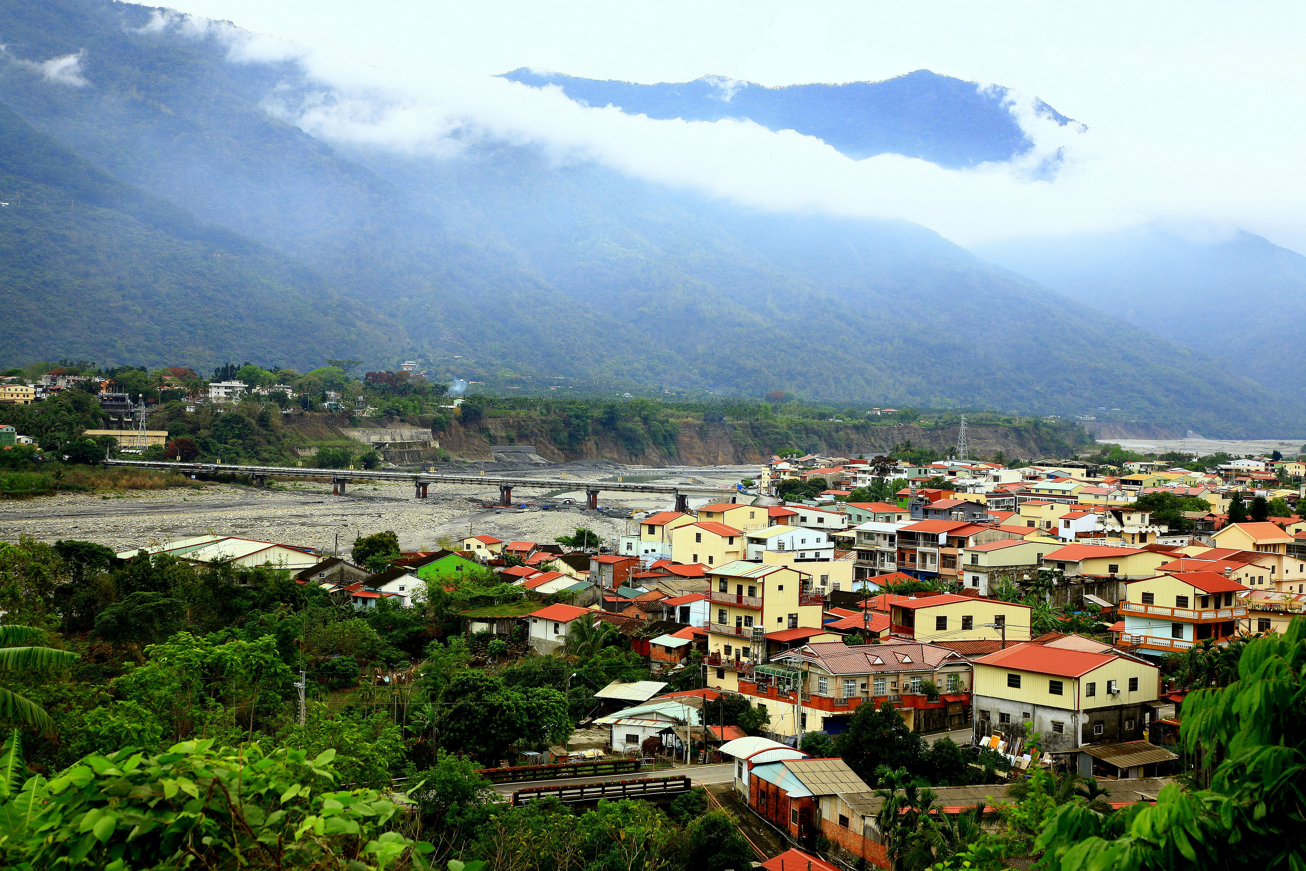 Laonong River passing through Liouguei, with the Central Mountain Range in the background. In the middle of the picture is Liouguei Bridge.